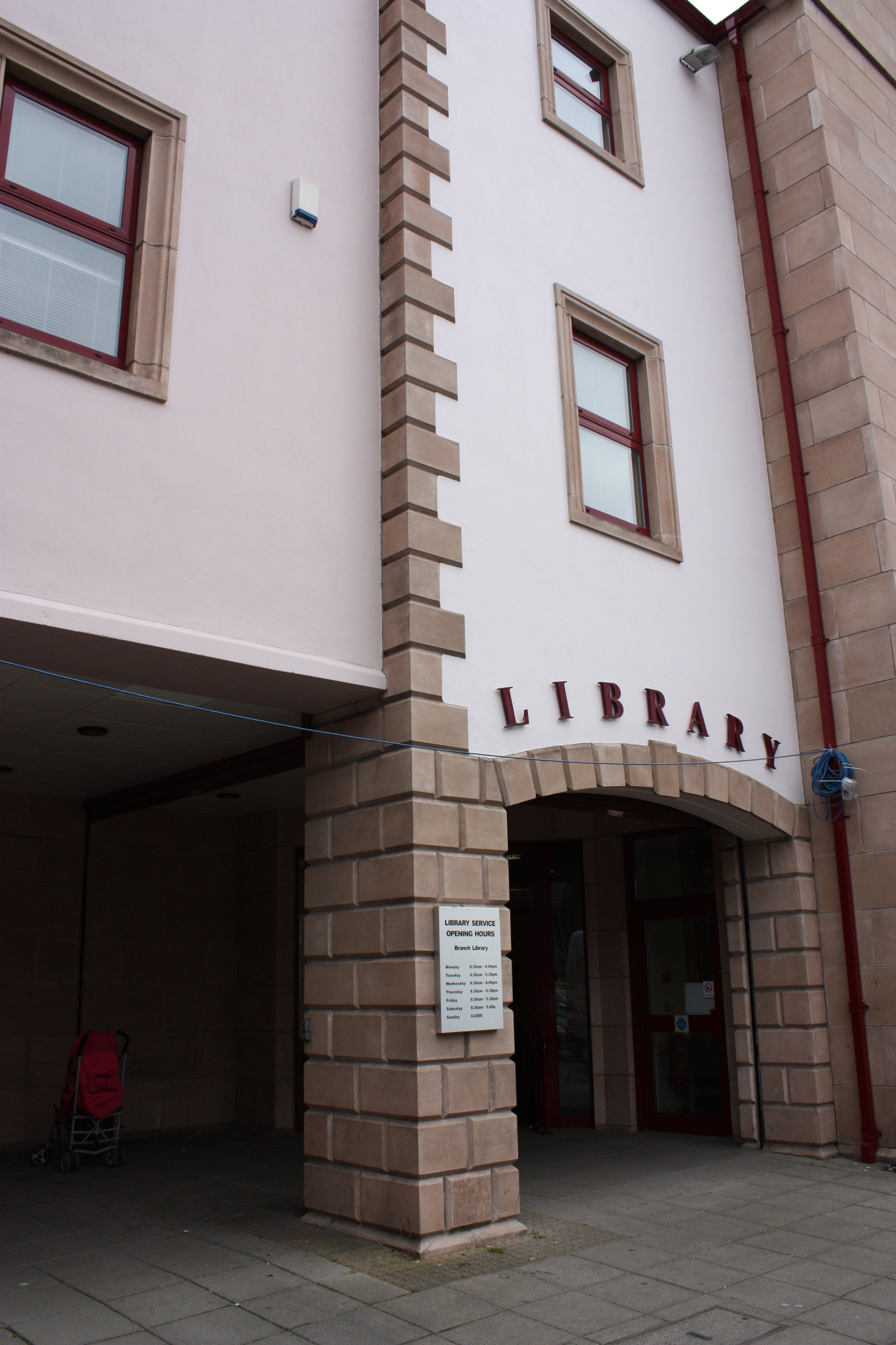 Library, Church Street, Portadown, County Armagh, Northern Ireland, September 2009